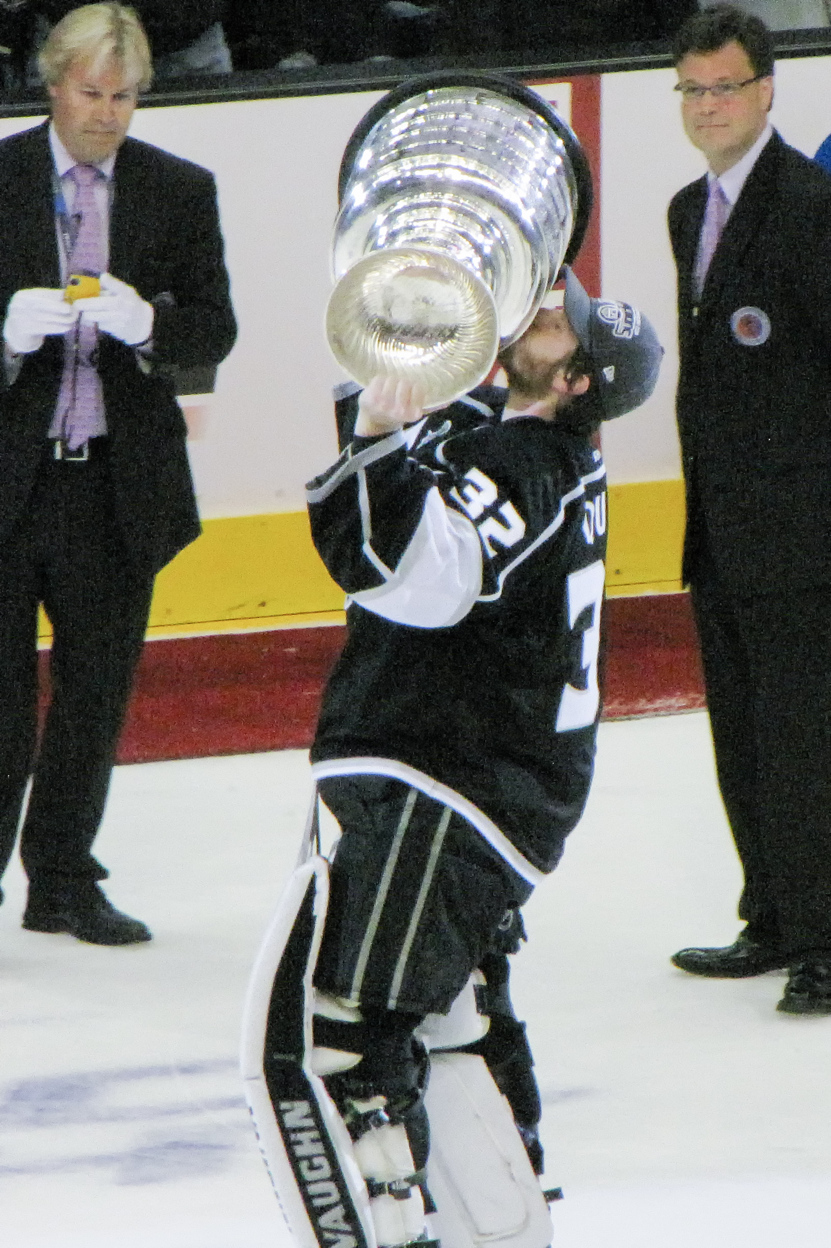 In April 2013 the Kings posted a nice video about receiving The Stanley Cup